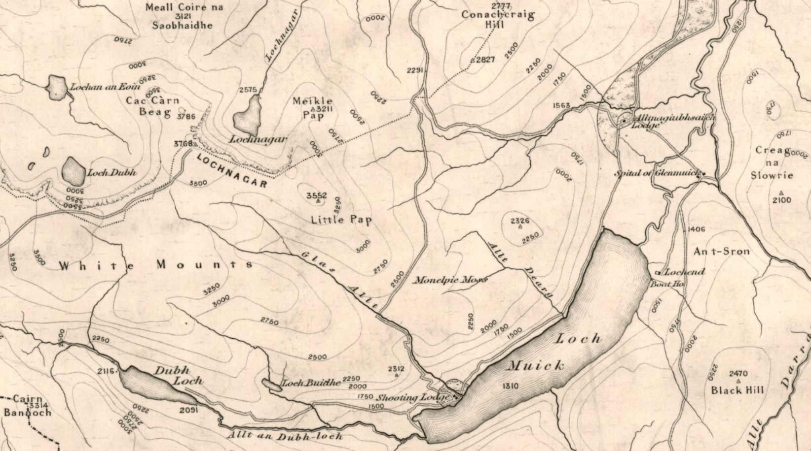 Crop from OS One-inch to the mile maps of Scotland, 1st Edition, 1856-1891 Sheet 65 - Balmoral Publication date: 1870